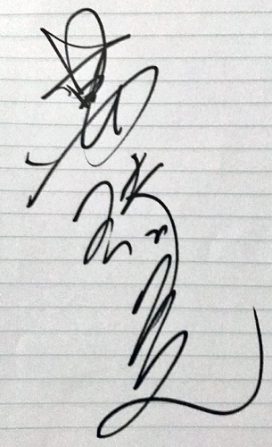 This is Joey Meng's signature.